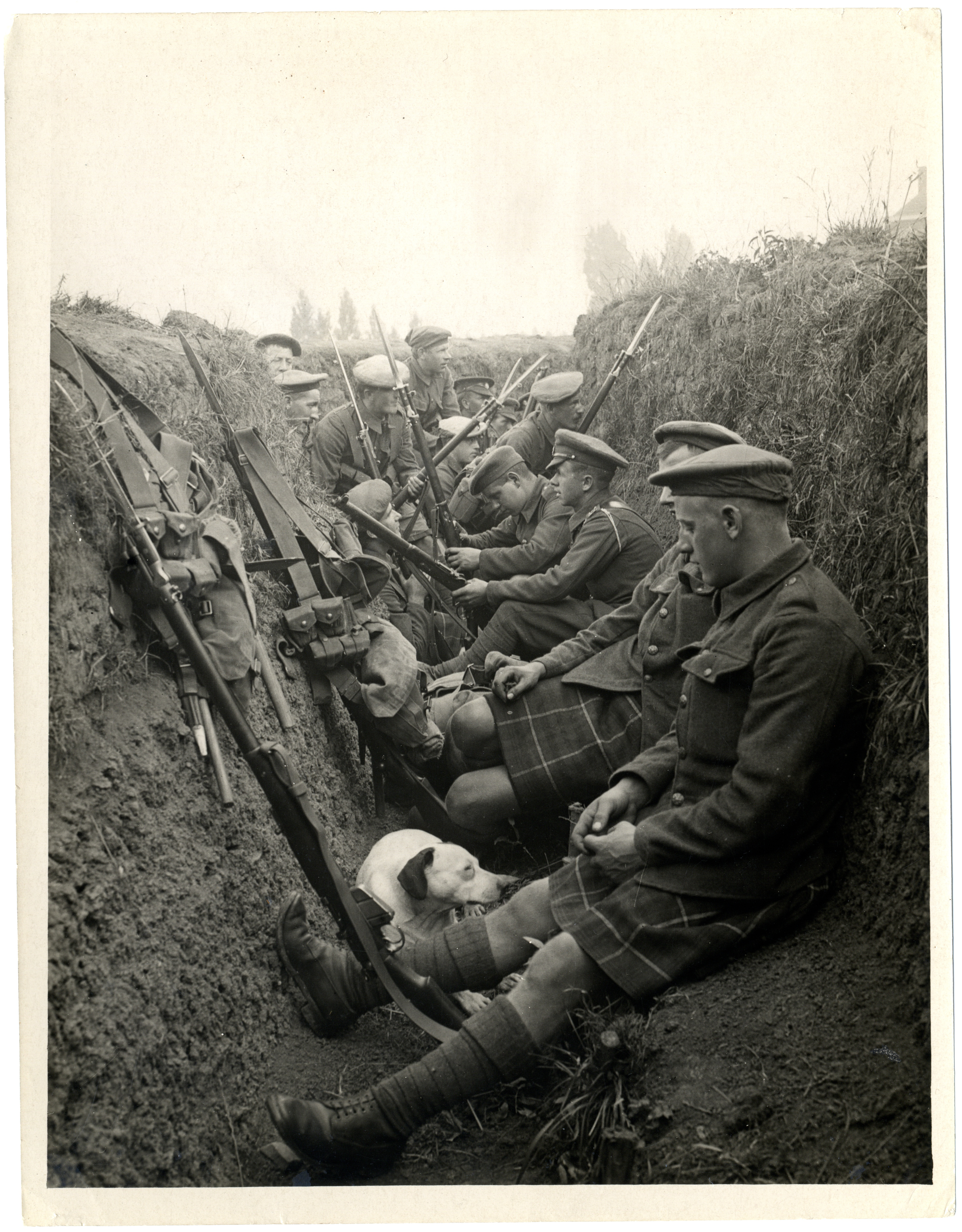 Reference: Photo 24/(248) From the Girdwood Collection held by the British Library. This image is part of the Europeana Collections 1914-1918 Date: 5 Aug 1915 See also: - View this at the British Library's site - Browse this collection on Europeana - and on Wikimedia Commons Please consider donating to the British Library.